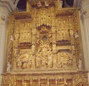 Reredos - El Pilar in Zaragoza